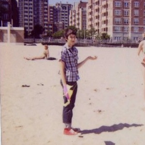 Owen Kline